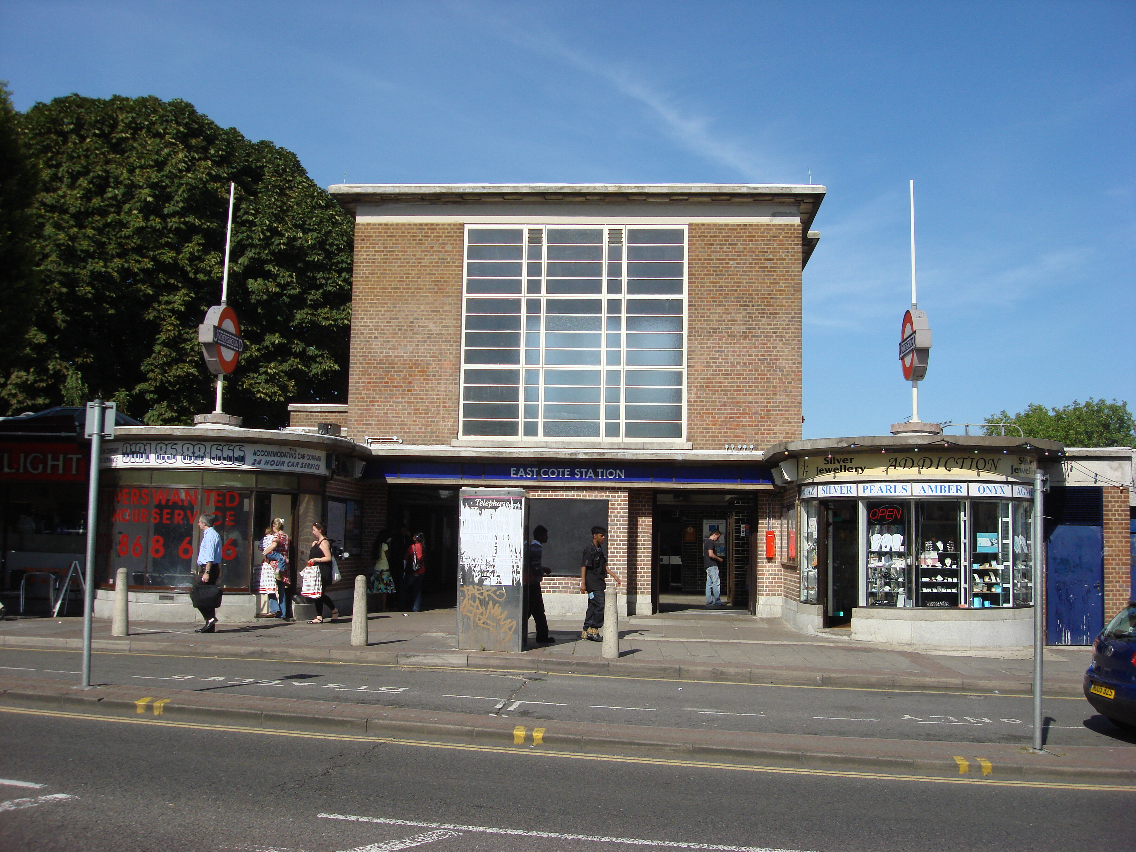 Eastcote tube station